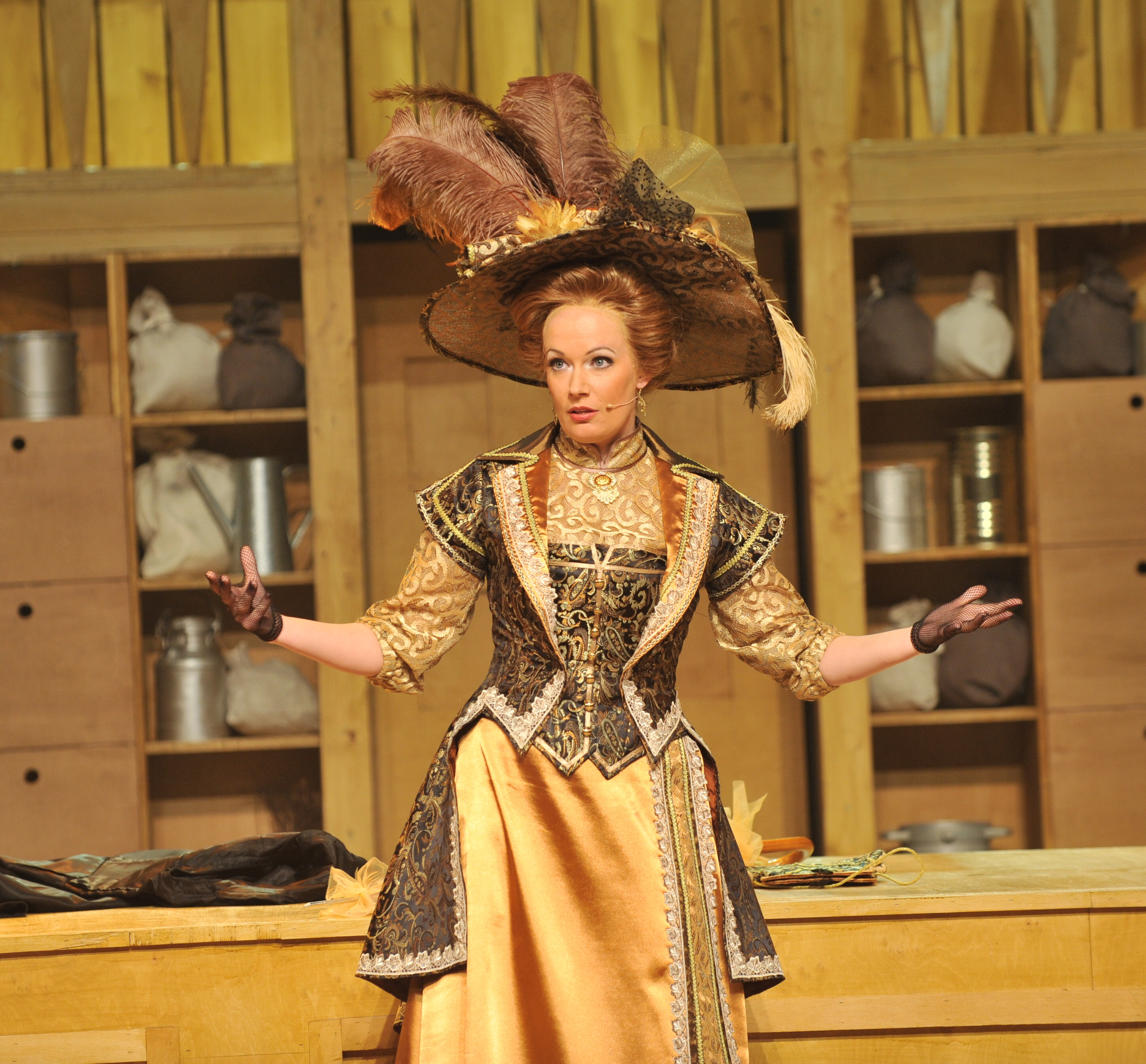 Alena Antalová